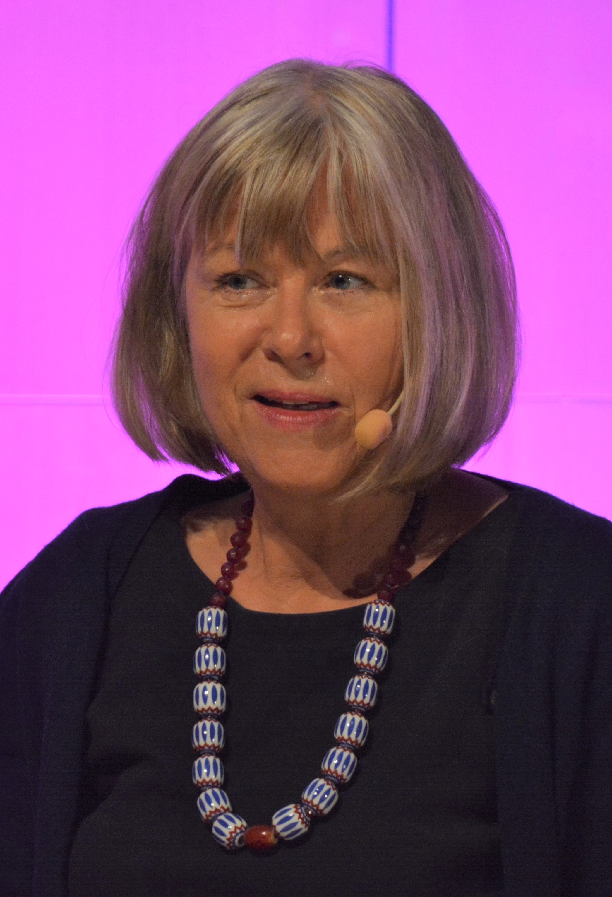 Kristina Kappelin at the 2017 Göteborg Book Fair.